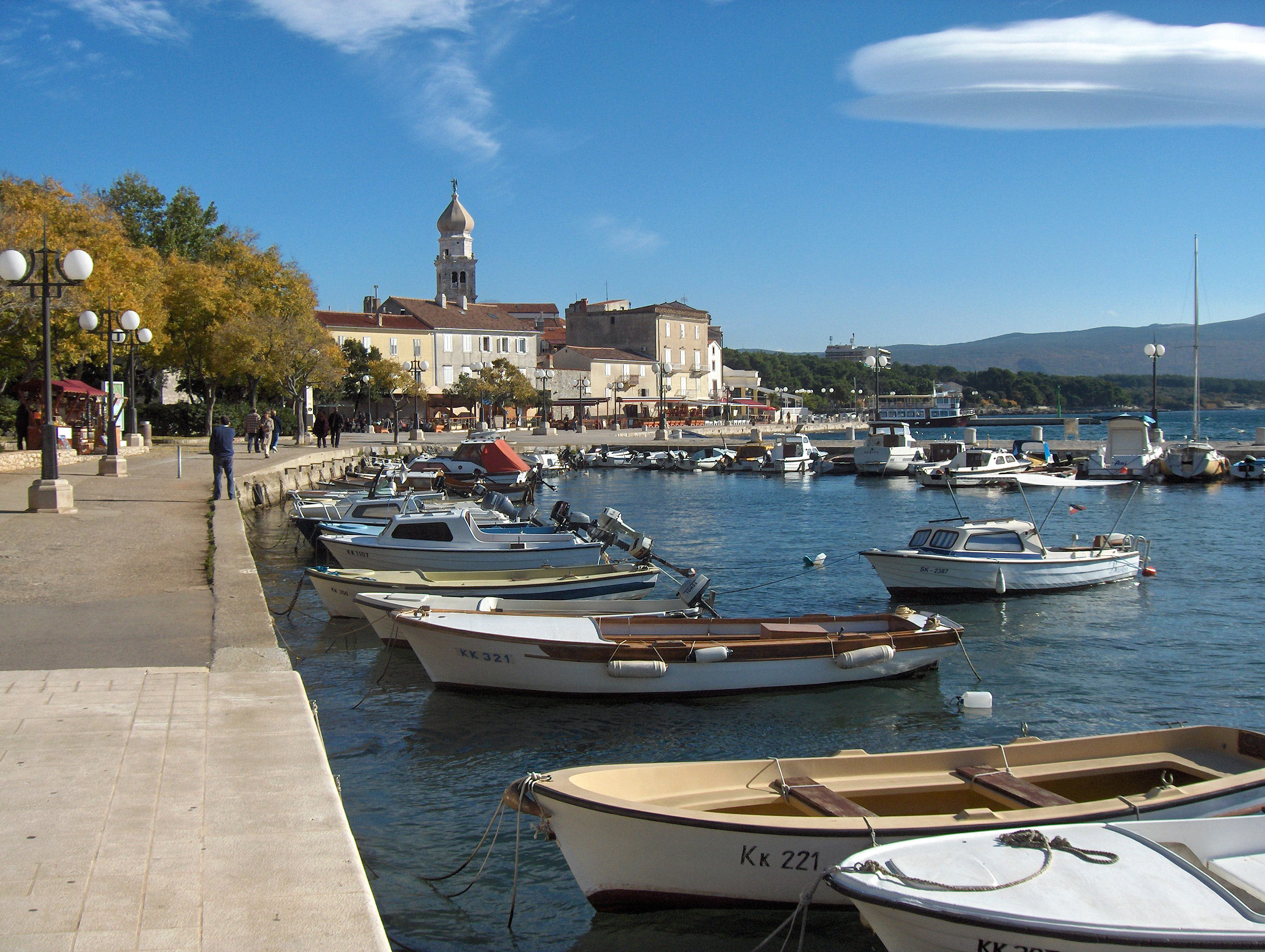 Harbour of Krk (grad), on the island of Krk, Croatia